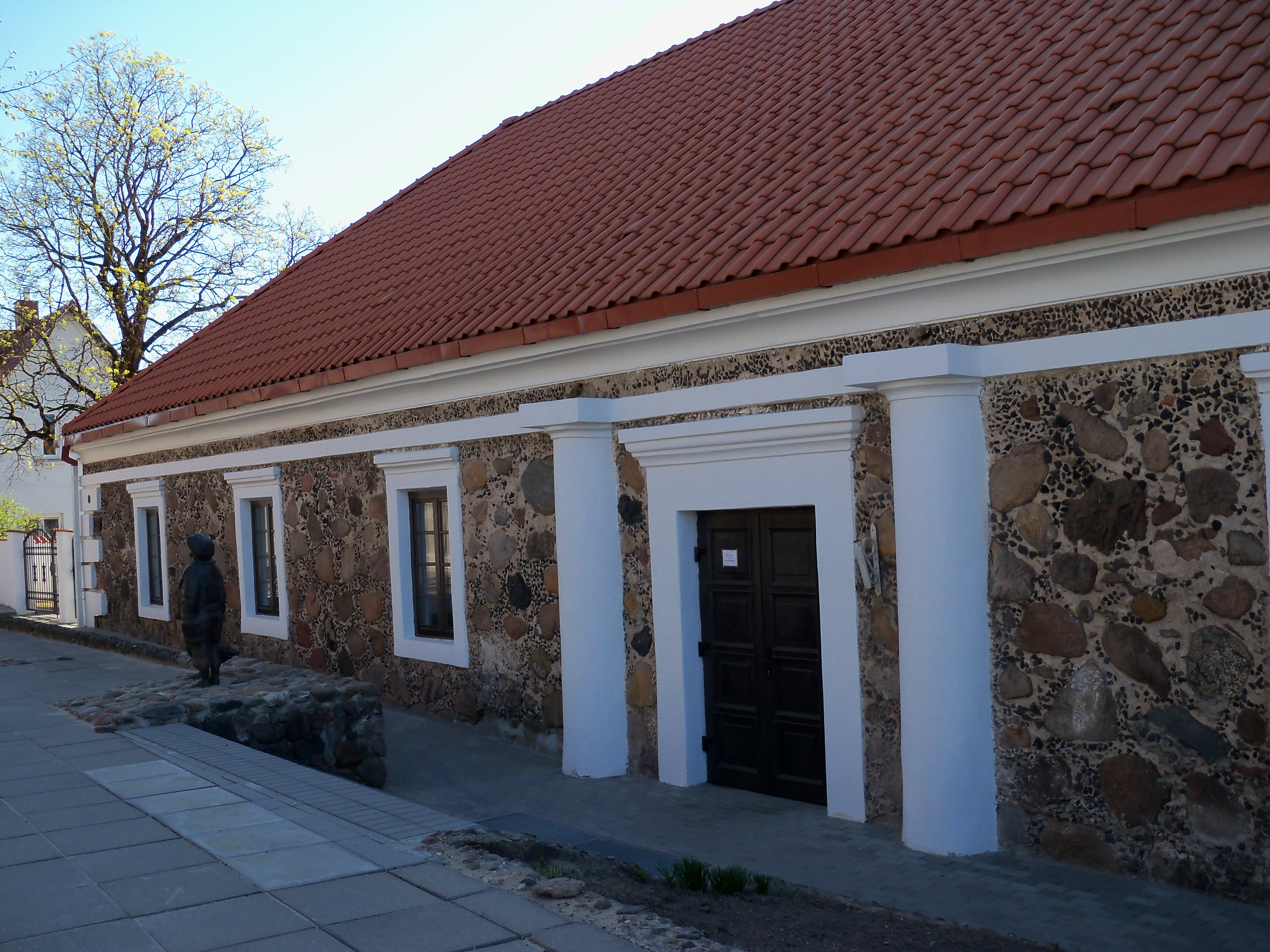 Kupiškis museum. Unknown